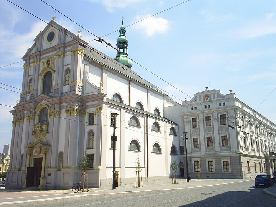 Opava - country archive of Silesia Česky: Opava - Zemský archiv